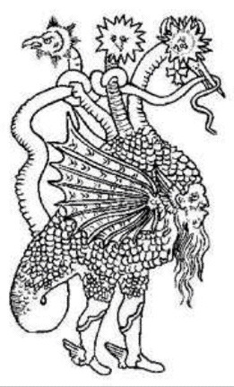 This is an early artist's rendition of the classical mythological legend, the "Mystagogue".